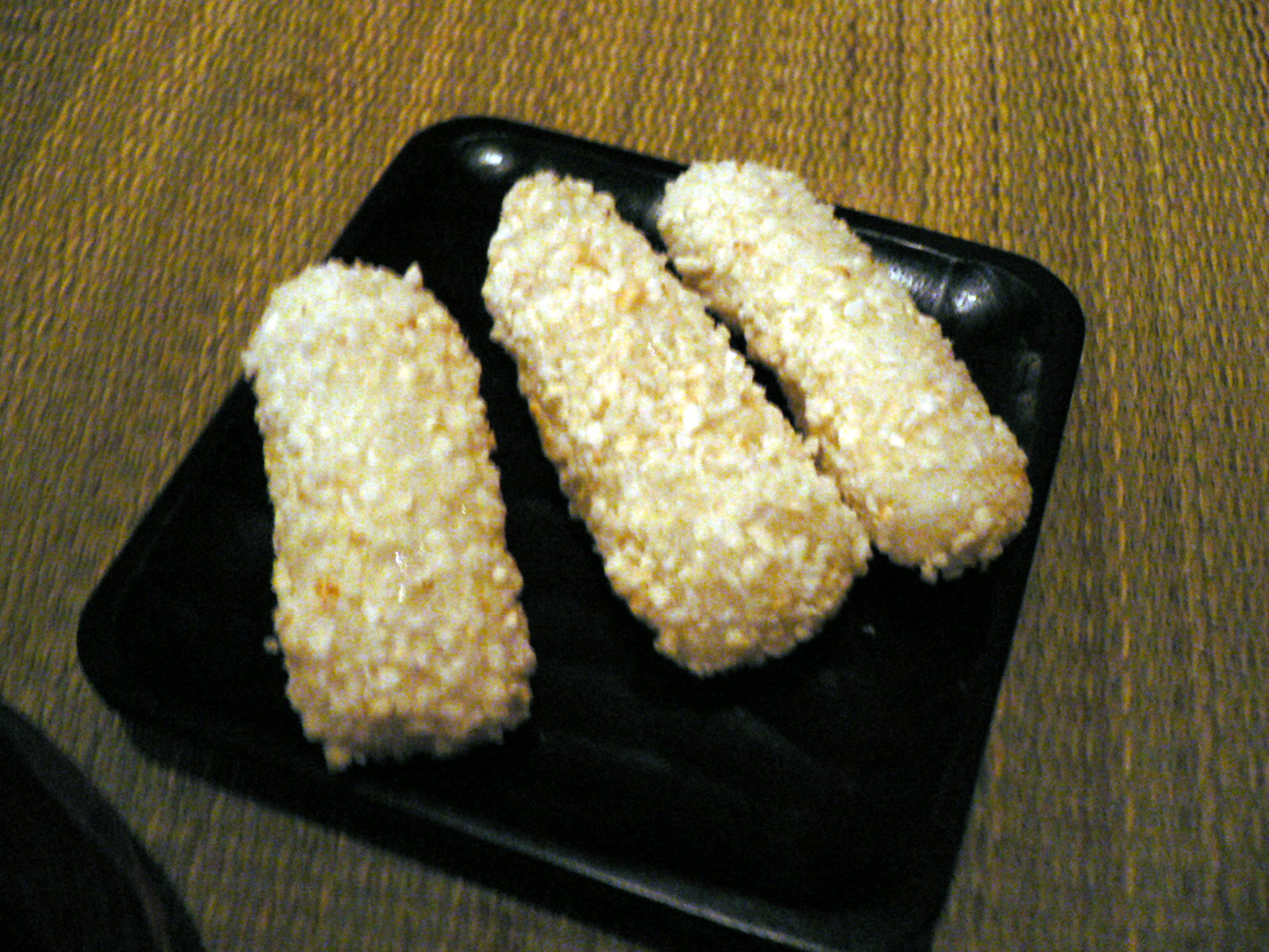 Yugwa at a tea room in Insadong